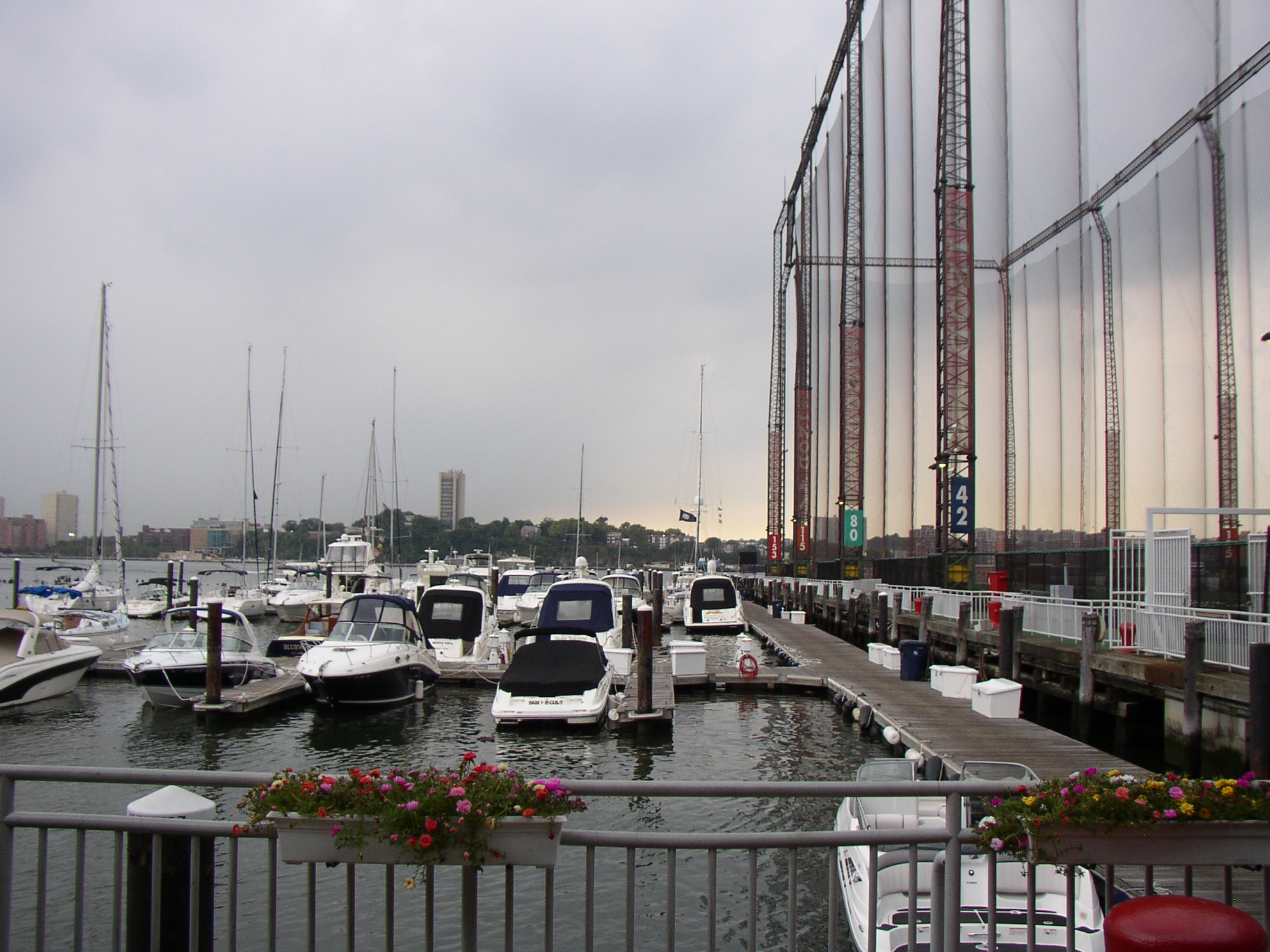 Boats at Chelsea Piers, on the right side the Driving Range